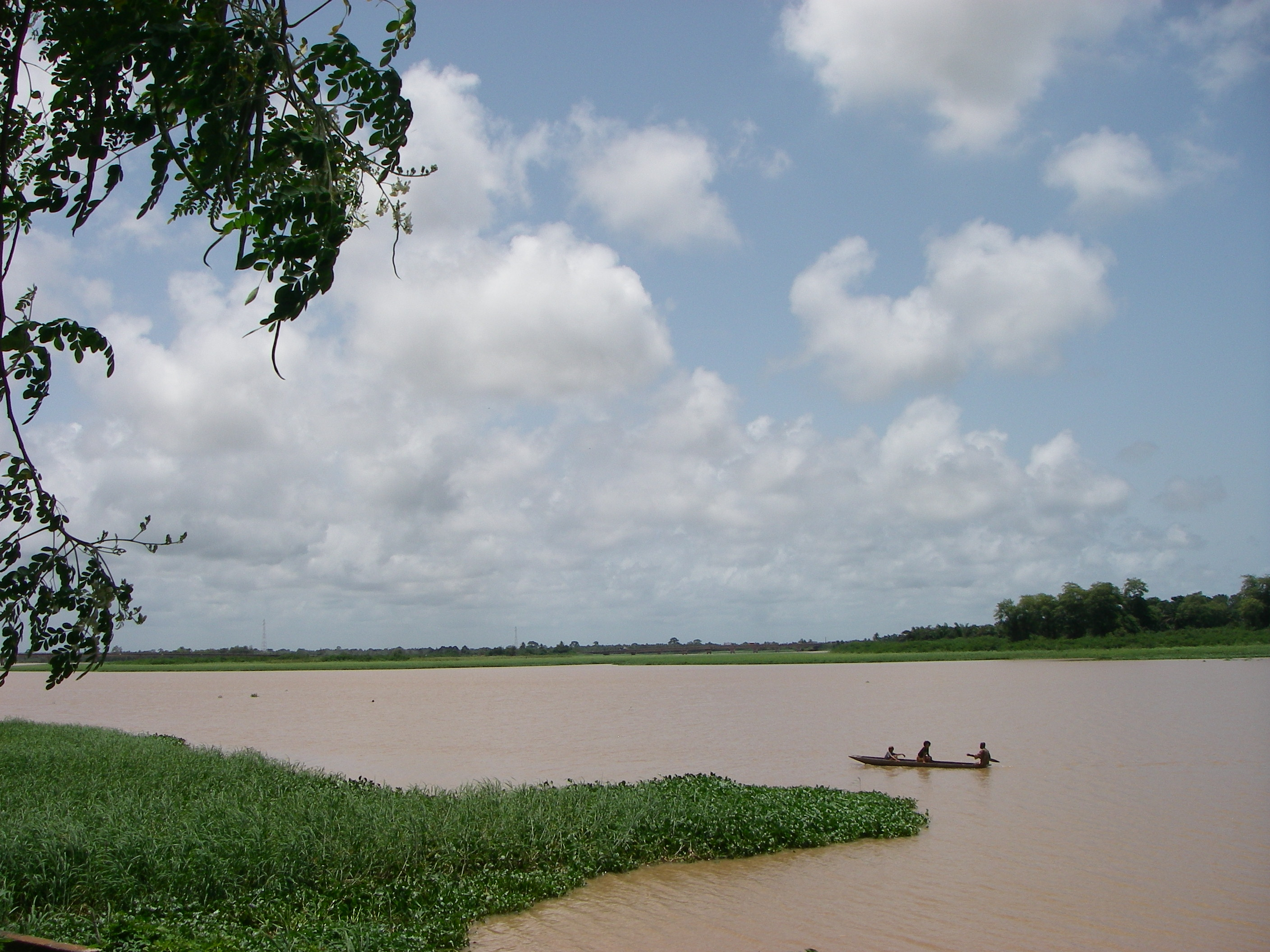 Pirogue on Grand Bassam lagoon, Ivory Coast, Africa